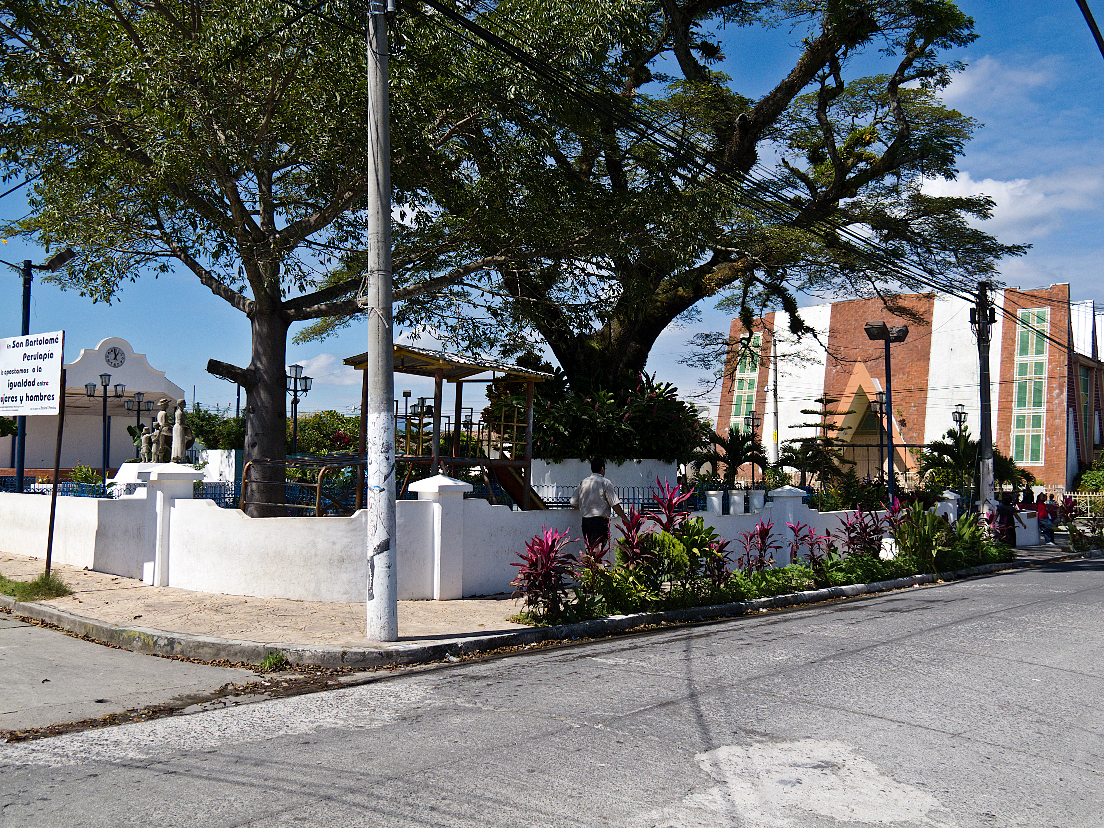 Central square, looking at park and church in San Bartolomé Perulapía, Cuscatlán, El Salvador